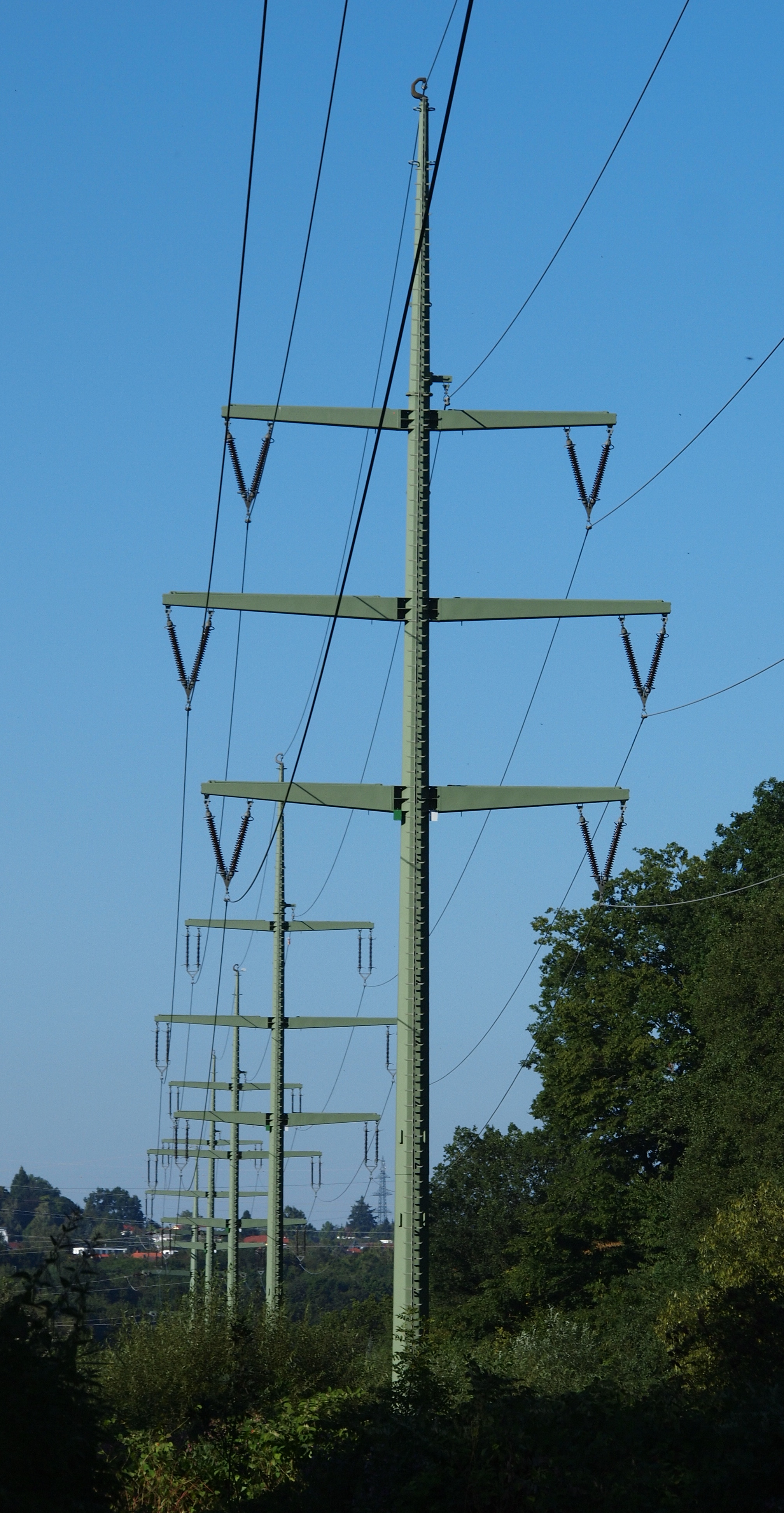 Steel tube pylons of a 110 kV power line in Germany. The first one has V-shape insulators and can bear some lateral force, the others are pure suspension towers.